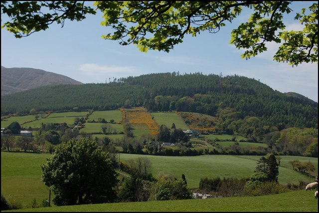 Tollymore Forest near Newcastle Once it has left Newcastle behind, the Bryansford Road climbs gently towards the former estate village of Bryansford. There are pleasant views of the surrounding countryside. This one, near the corner of the Tullybrannigan Road, is towards Tollymore Forest.